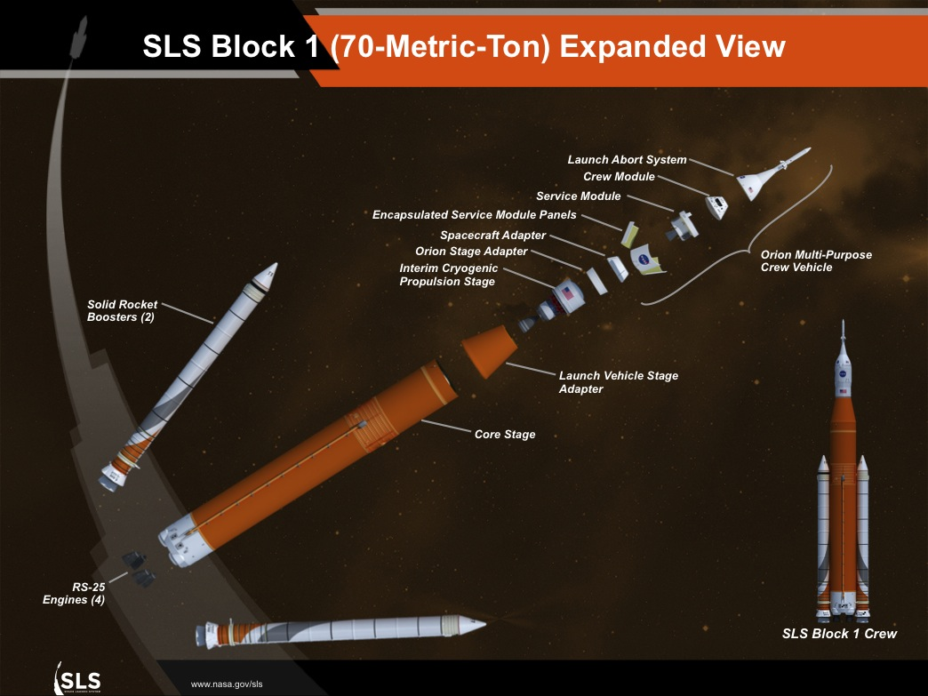 An expanded view of an artist rendering of the Block 1 70-metric-ton configuration of NASA's Space Launch System (SLS), managed by the Marshall Space Flight Center in Huntsville, Ala. Launching astronauts on board the Orion Multi-Purpose Crew Vehicle, this vehicle will enable humans to explore our solar system farther than ever before, supporting travel to asteroids, the moon, Mars and other deep space destinations. NASA's new rocket is scheduled to be ready no later than November 2018.